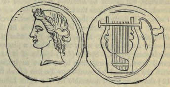 Coin of ancient city Adranum. Image taken from a book published at 1870